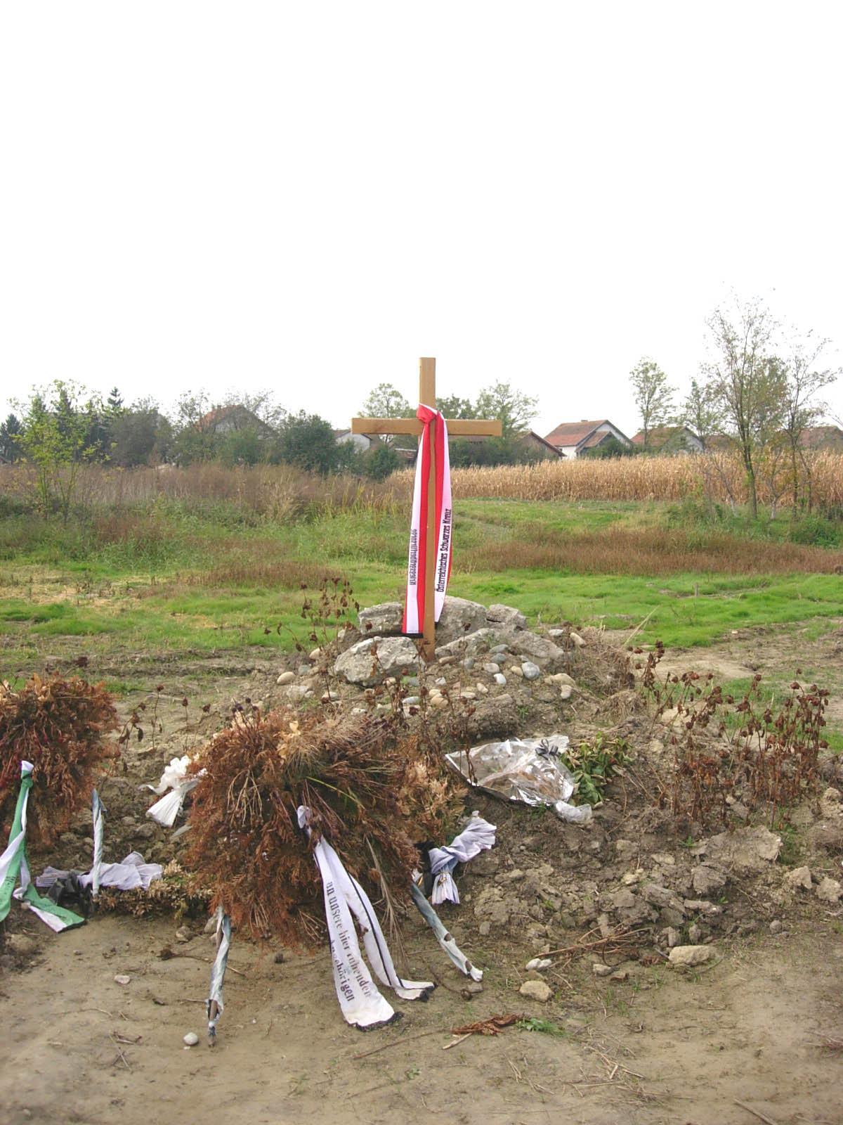 Memorial of the after WW2 prison camp victims in Bački Jarak.